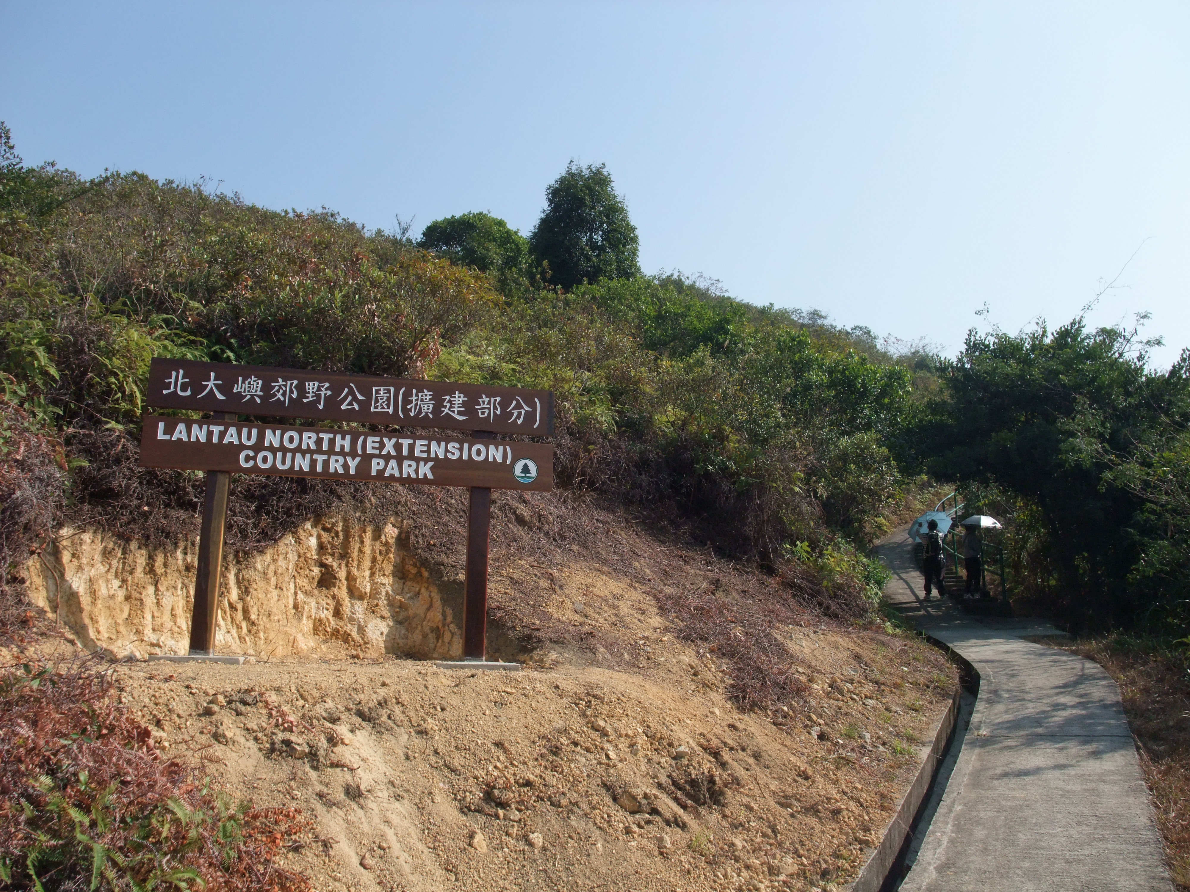 Photo of Lantau North (Extension) Country Park